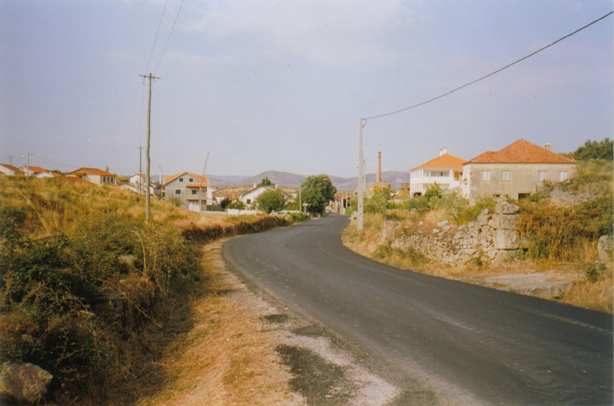 Town of Almendra, municipality of Vila Nova de Foz Côa, Portugal.